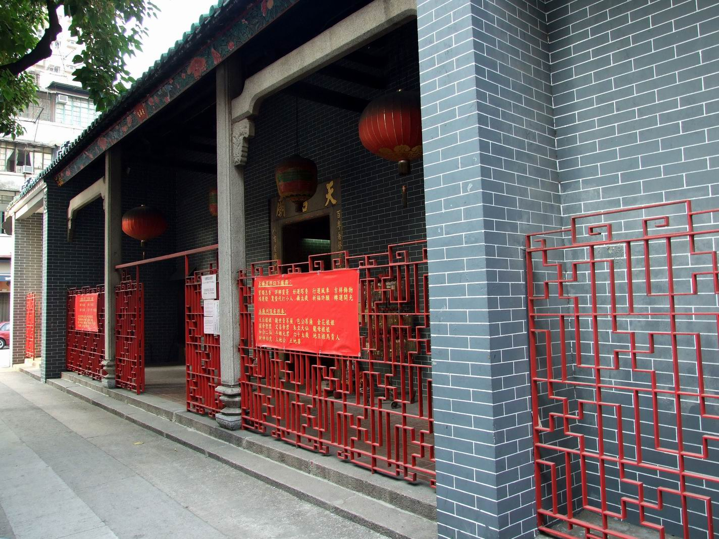 深水埗天后廟 Located at No.180-184 Yee Kuk Street, at the corner of Kweilin Street, Sham Shui Po